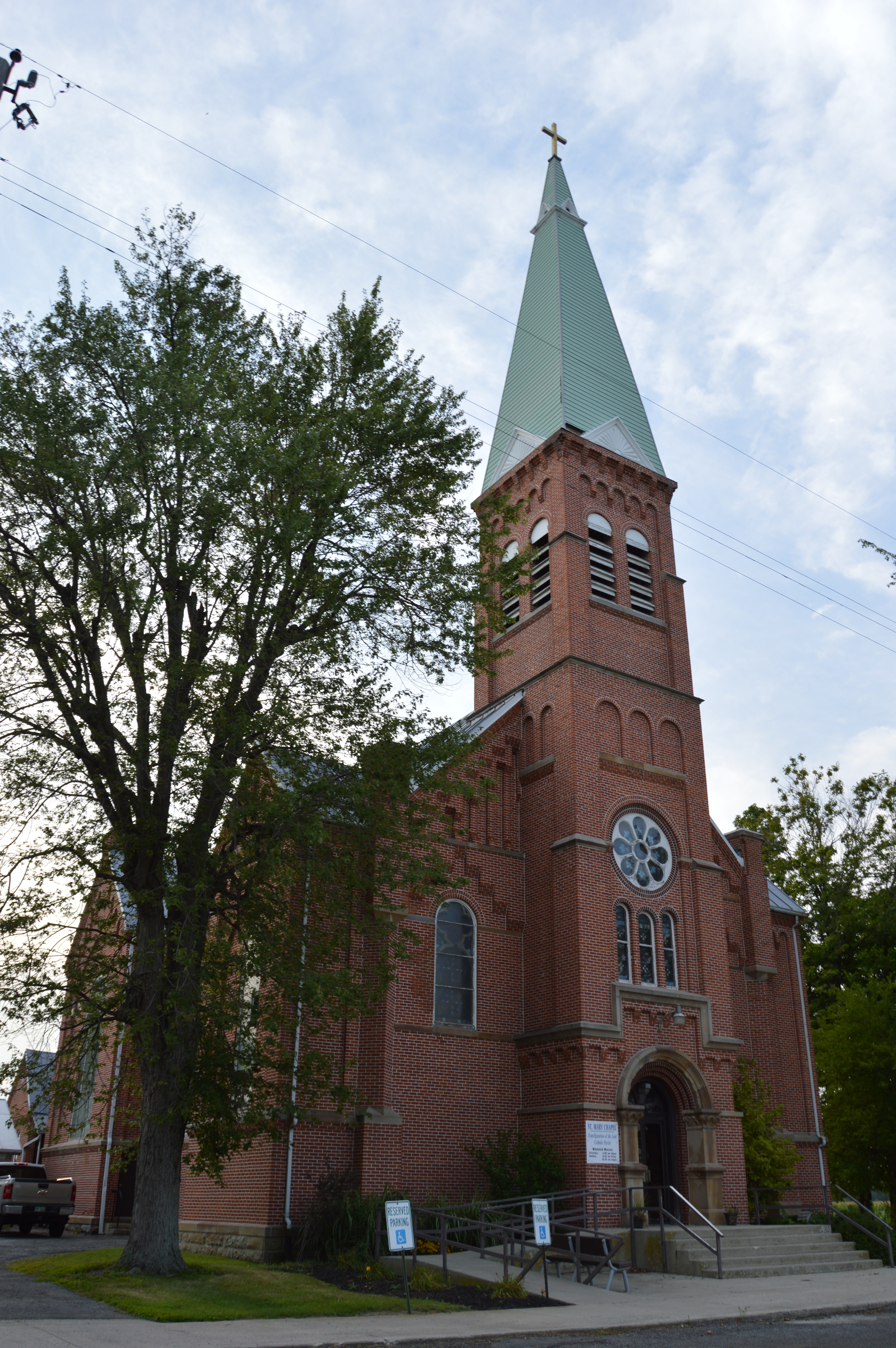 Front and southern side of St. Mary's Catholic Church, located on the western side of Main Street (State Route 293) at the northern end of Kirby, Ohio, United States. It was built in 1891.